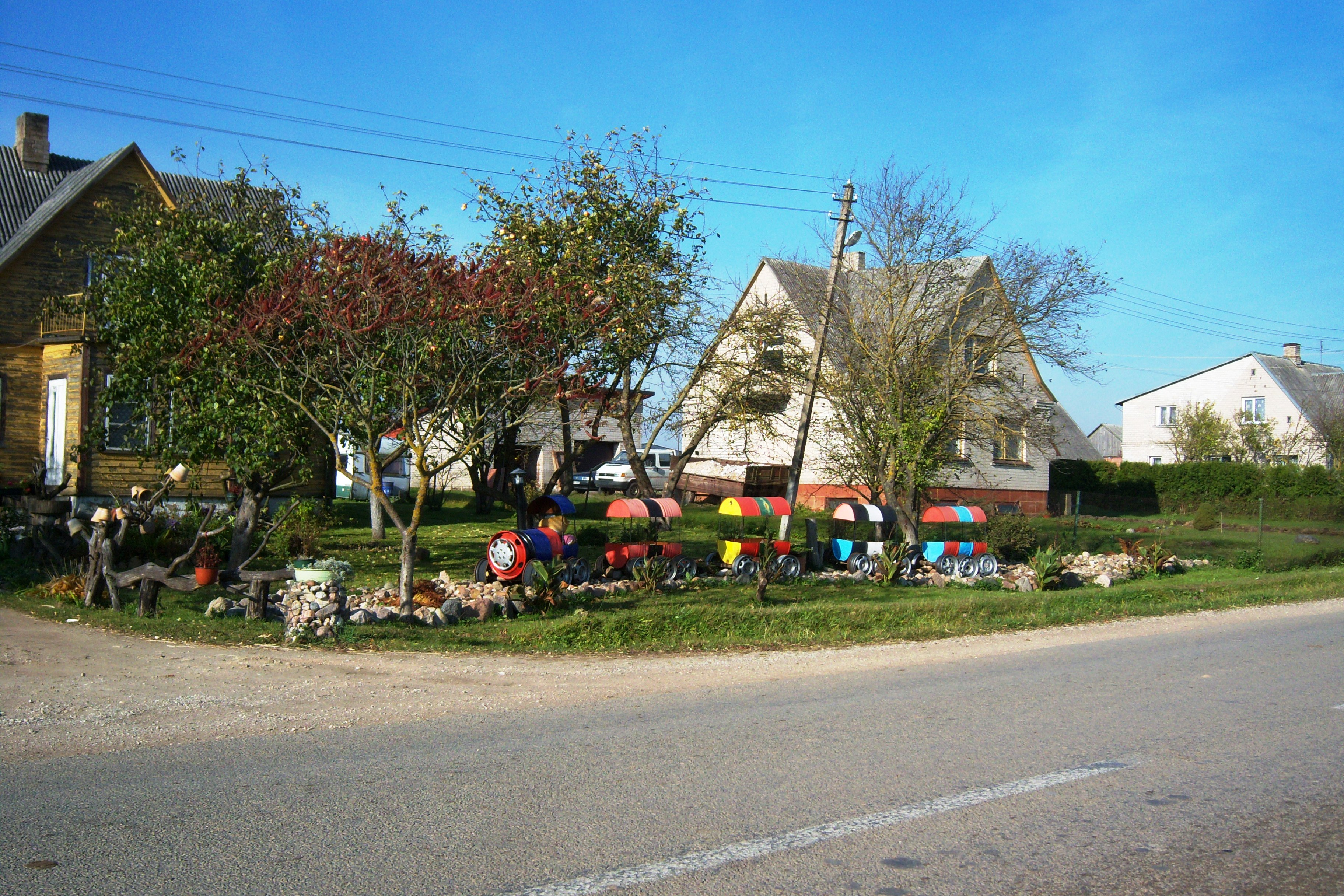 Daugėliškiai, Kaunas district, Lithuania